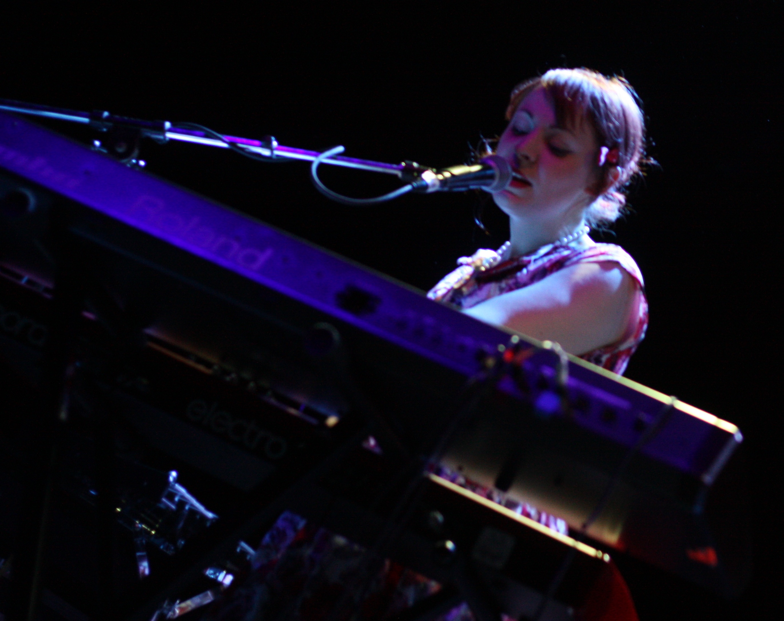 Camera Obscura performing at the Fillmore (San Francisco, California)